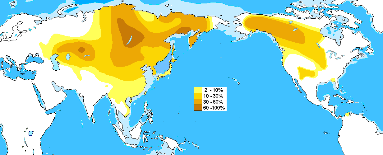 Distribution of haplogroup C3=C-M217 (YDNA)